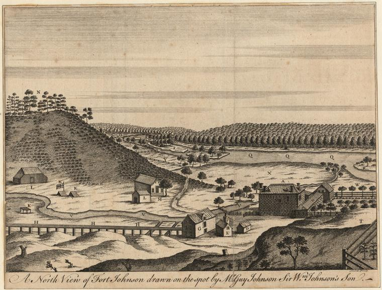 A north view of Fort Johnson drawn on the spot by Mr. Guy Johnson, Sir Wm. Johnson's son.